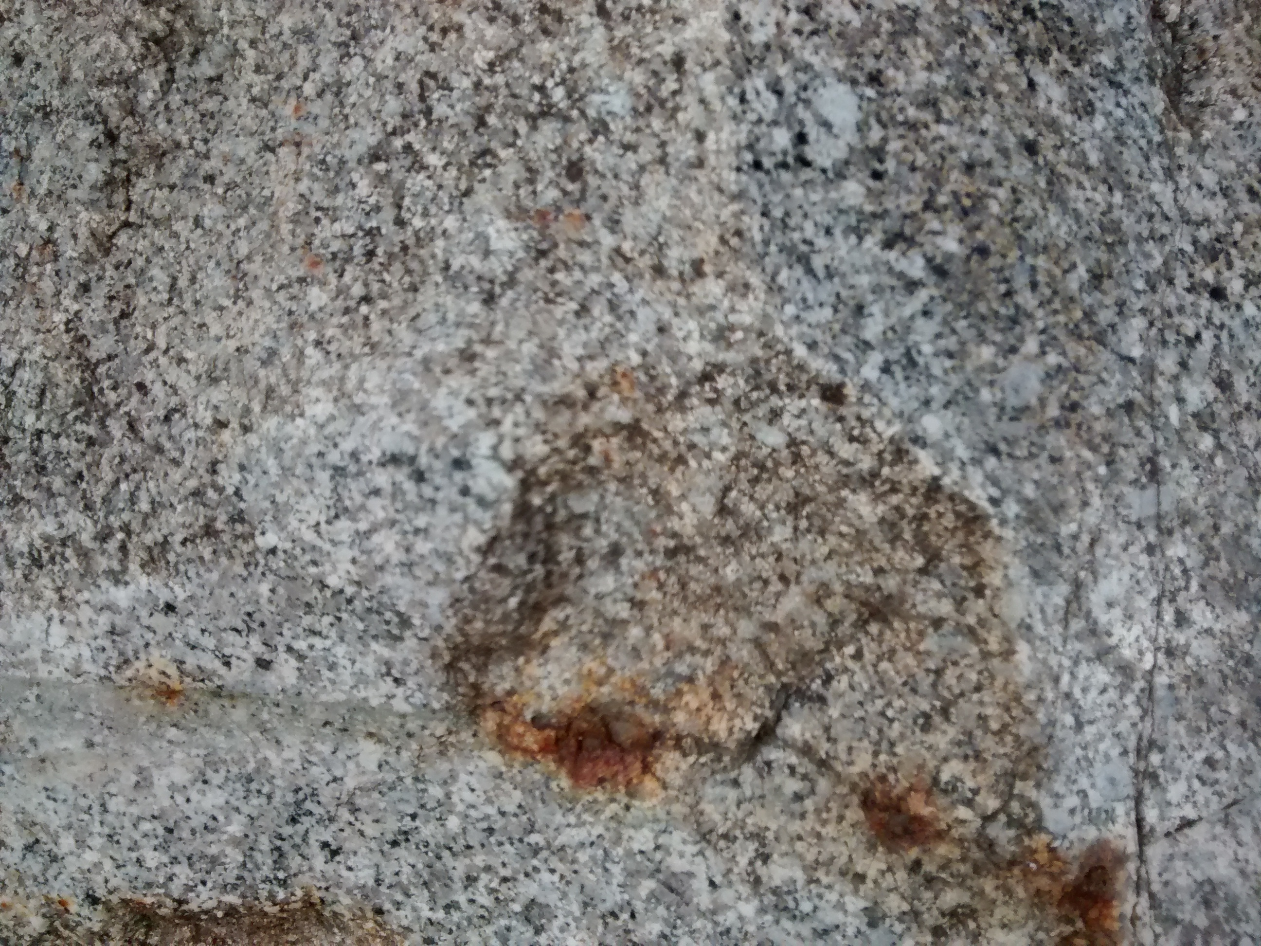 Granodiorite from Andorra displayed at the Jardí de Roques in the Parc Central, Andorra la Vella.